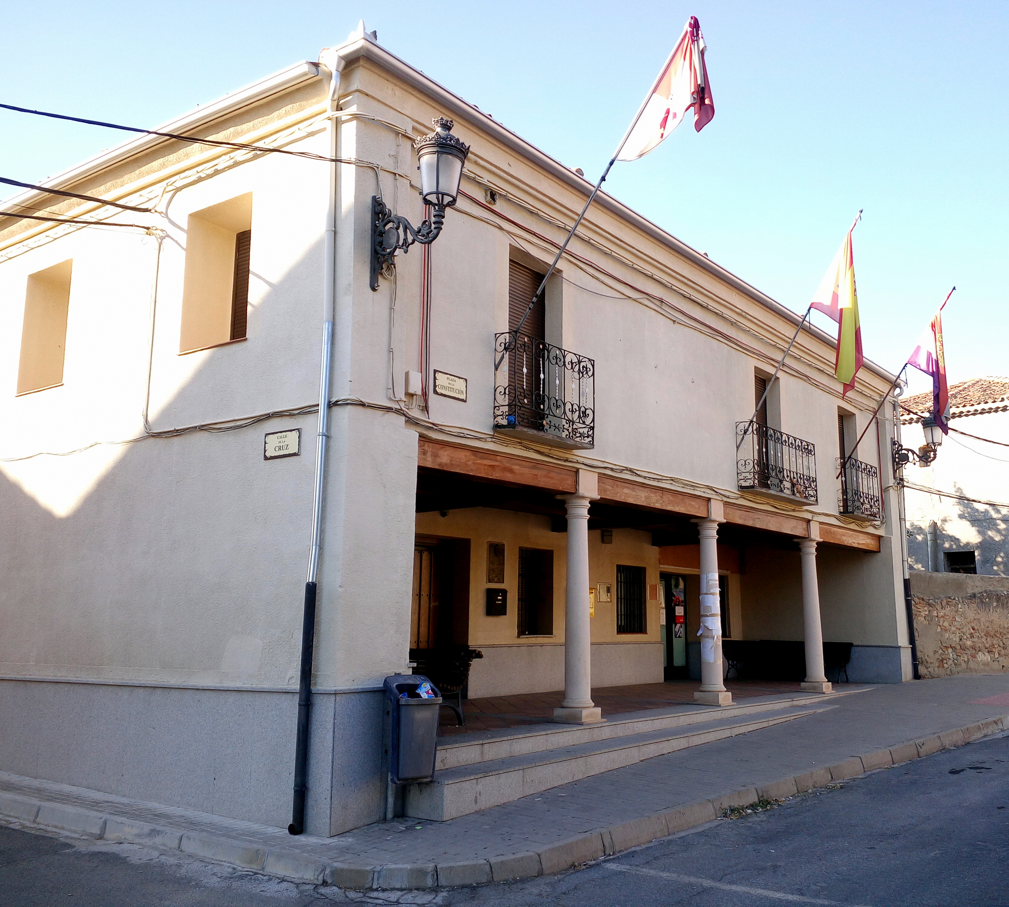 Town hall of Aldea Real, Segovia, Spain.